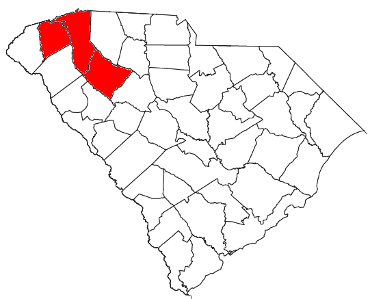 Locator map of the Greenville-Mauldin-Easley Metropolitan Statistical Area in the northwestern part of the U.S. state of South Carolina.